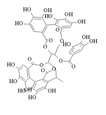 Chemical structure of stenophyllanin A (may be incorrect)